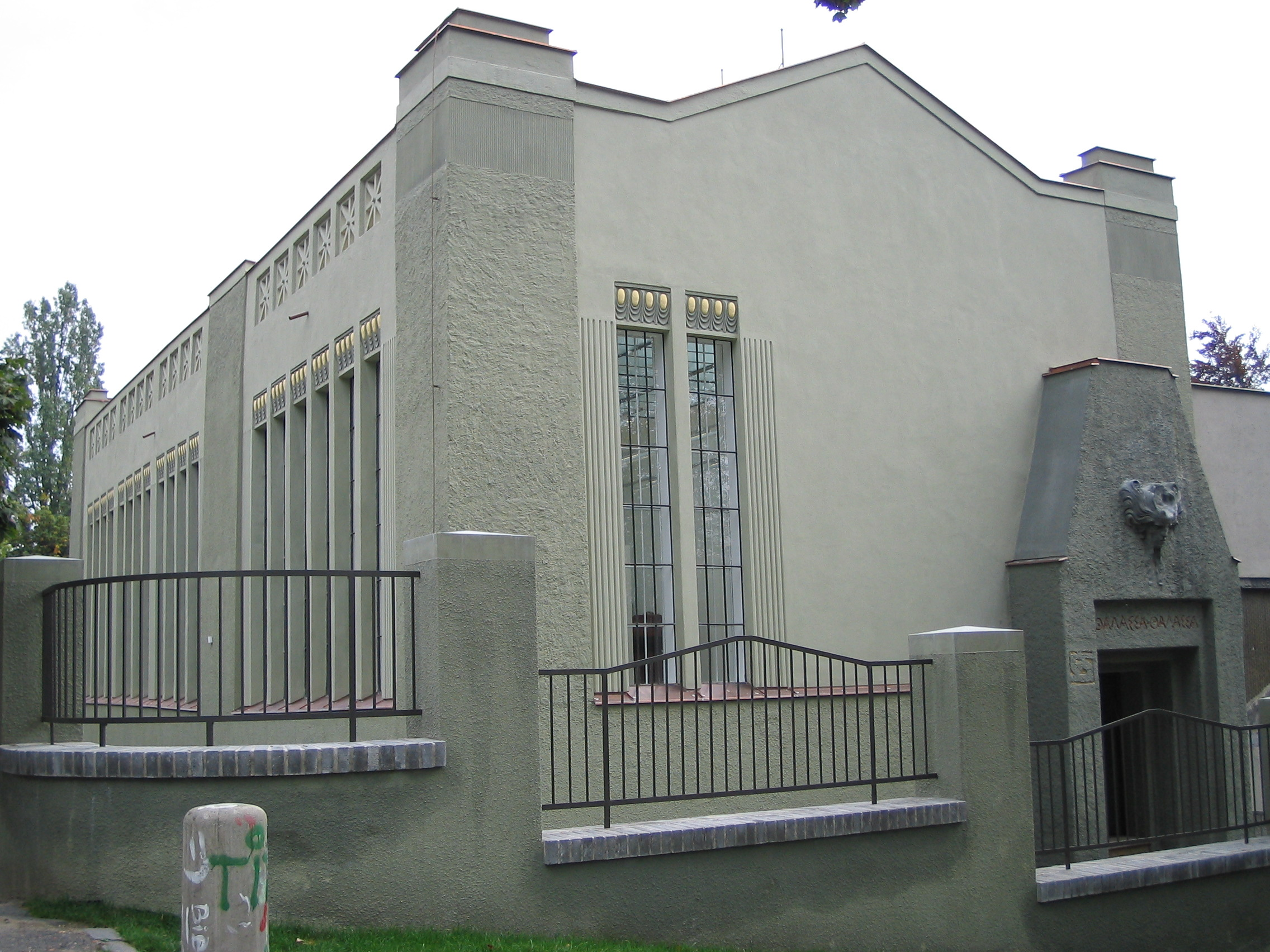 former studio of Czech sculptor Ladislav Šaloun in Prague